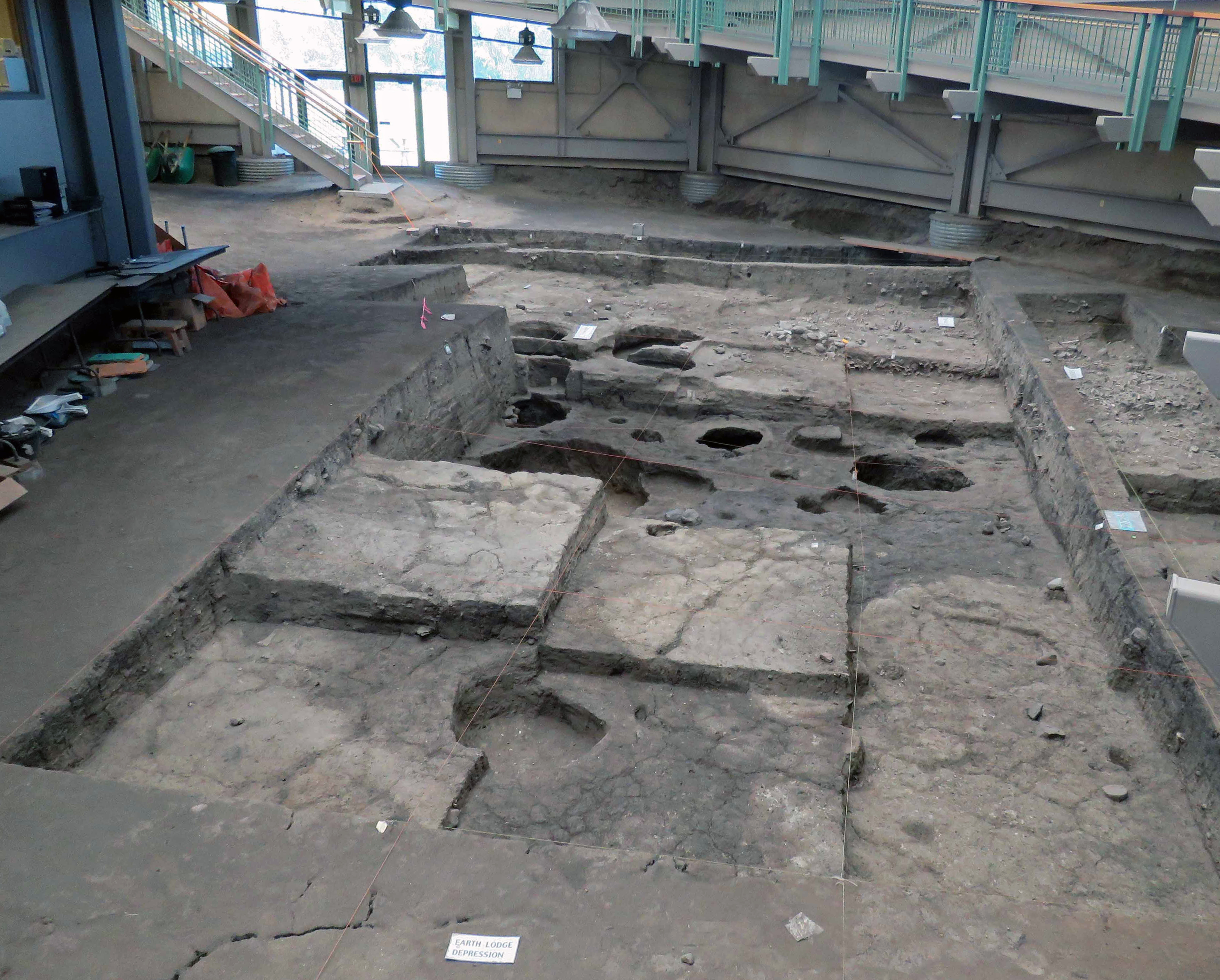 Inside the Thomson Archeodome Research Center